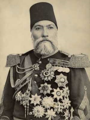 A cabinet card of Osman Nuri Pasha of the Ottoman Empire, by Abdullah Frères of Constantinople in about 1890-95. Owned by and scanned and retouched by Tim Ross, who releases all rights.